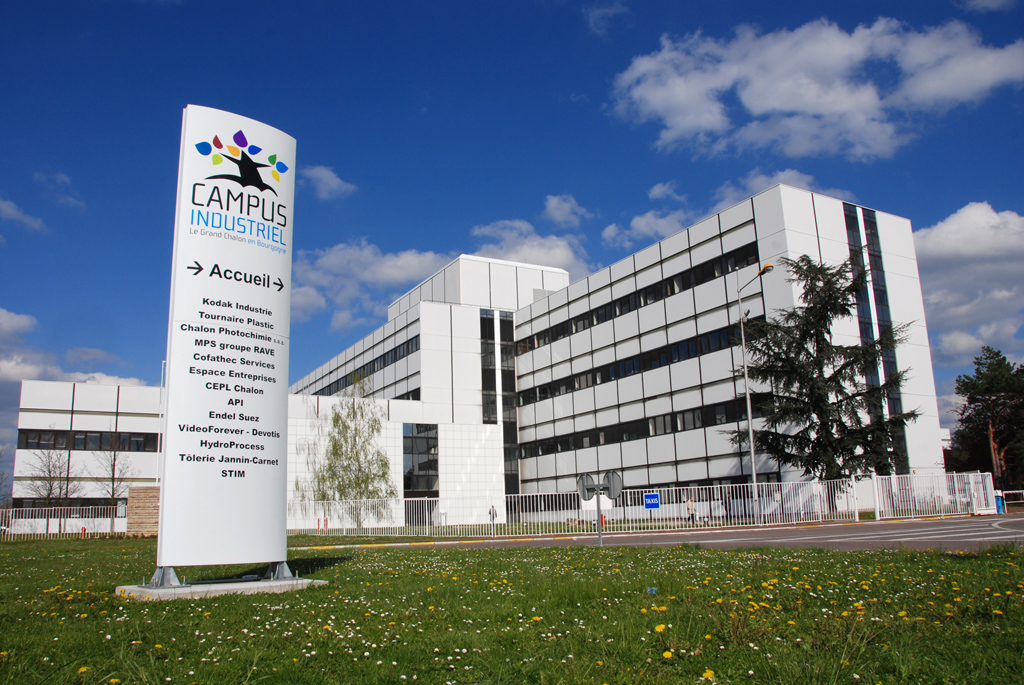 Campus Industriel Le Grand Chalon en Bourgogne - The Business Center